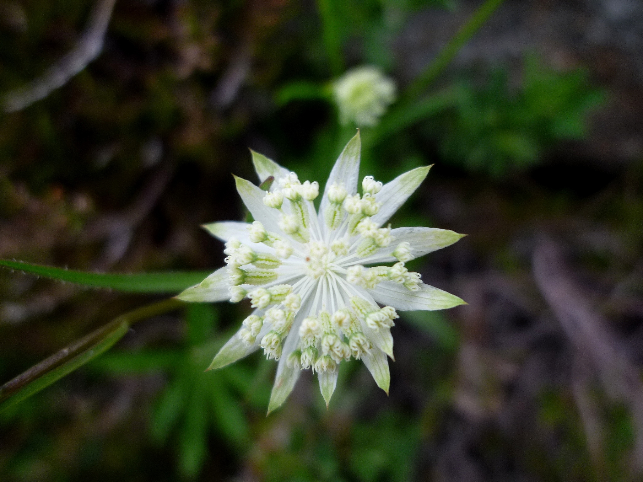 Astrantia minor. In Cabdella (Pallars Jussà - Catalunya. To 2.110 m altitude